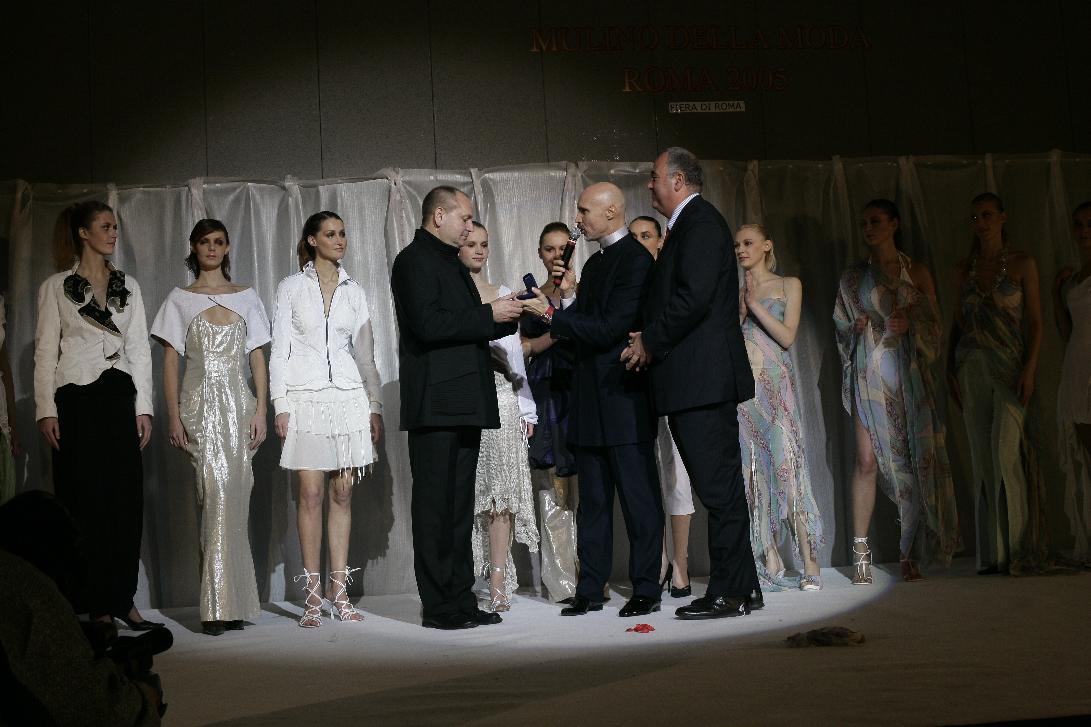 Aliaksandr Leanidavich Varlamau / Aleksandr Leonidovich Varlamov / Sasha Varlamov (born 1955 AD) - belorussian fashion designer. December 2, 2005 AD